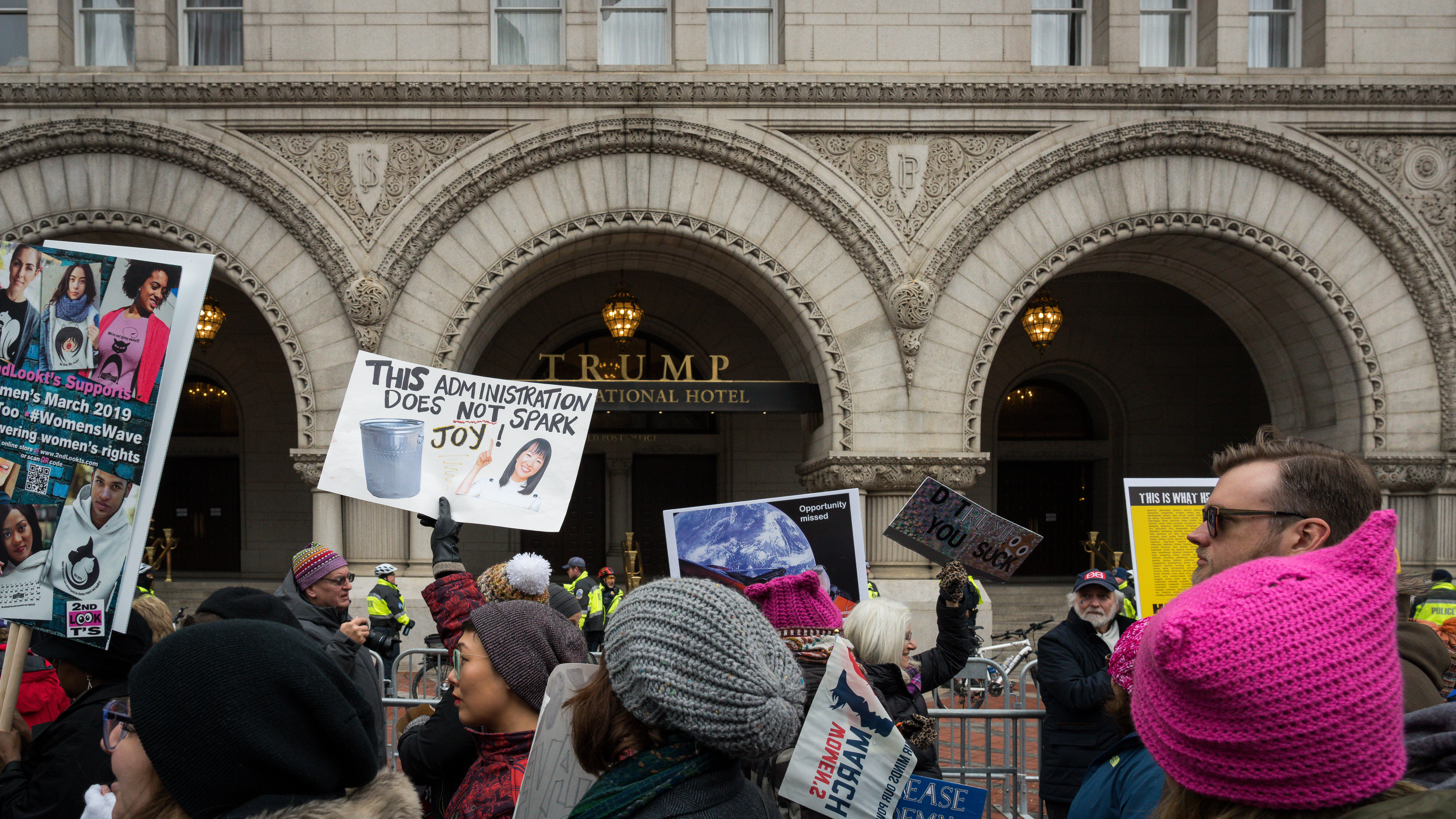 WDC Women's March 2019-19